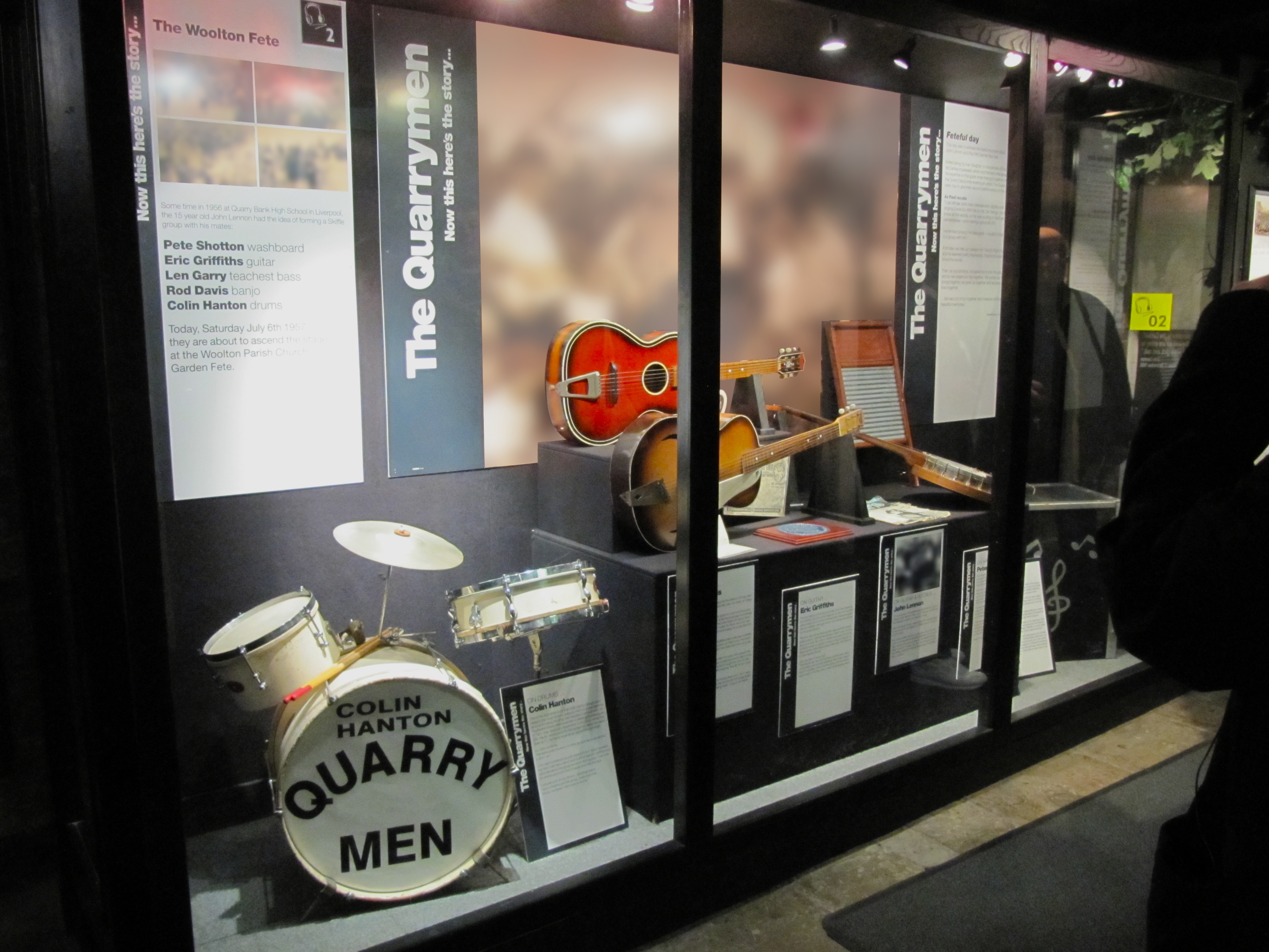 The Quarrymen (The Beatles Story)